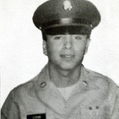 Portrait of Medal of Honor recipient Jesus S. Duran